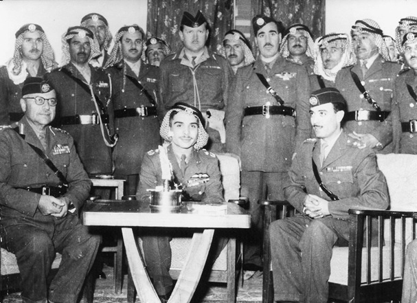 Seated from left to right: Chief of Staff of Arab Legion Glubb Pasha, King Hussein of Jordan and ADC Ali Abu Nuwar. Behind them are Jordanian officers of the Arab Legion (a British officer is standing in the middle of the Jordanian officers)